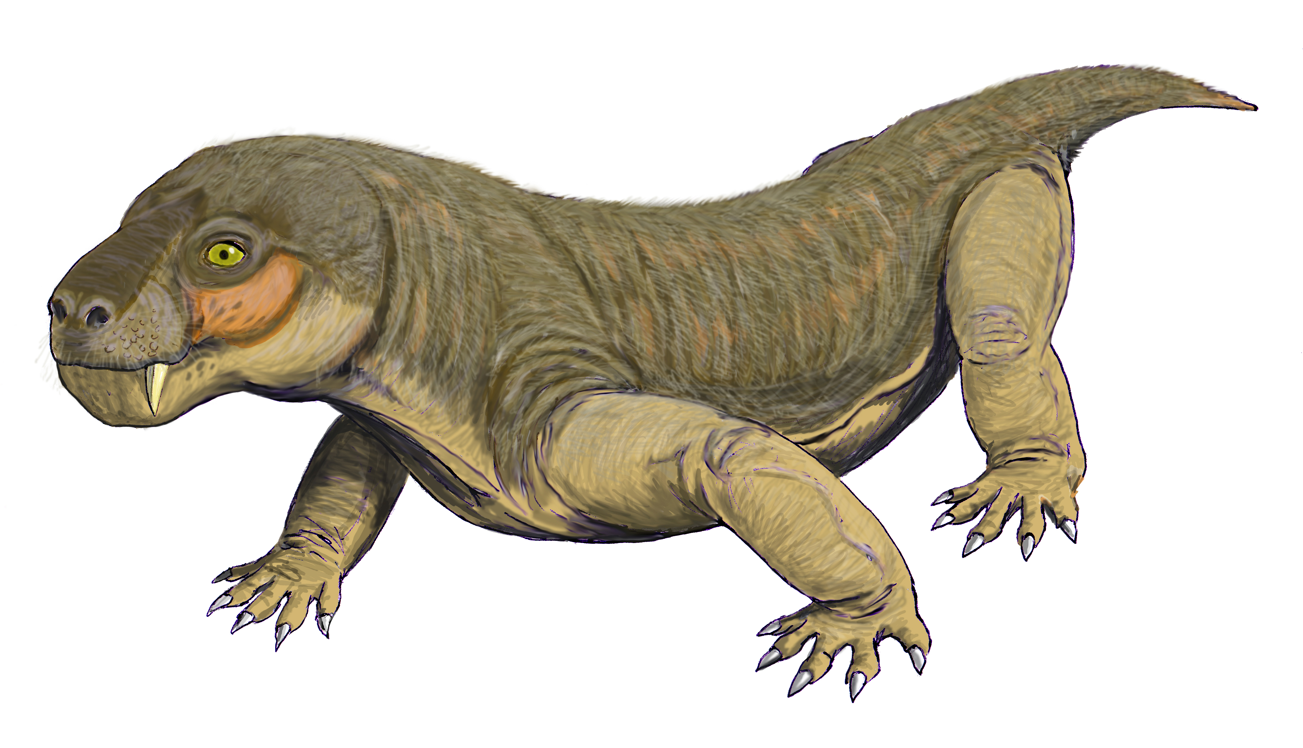 New reconstruction of Euchambersia mirabilis.